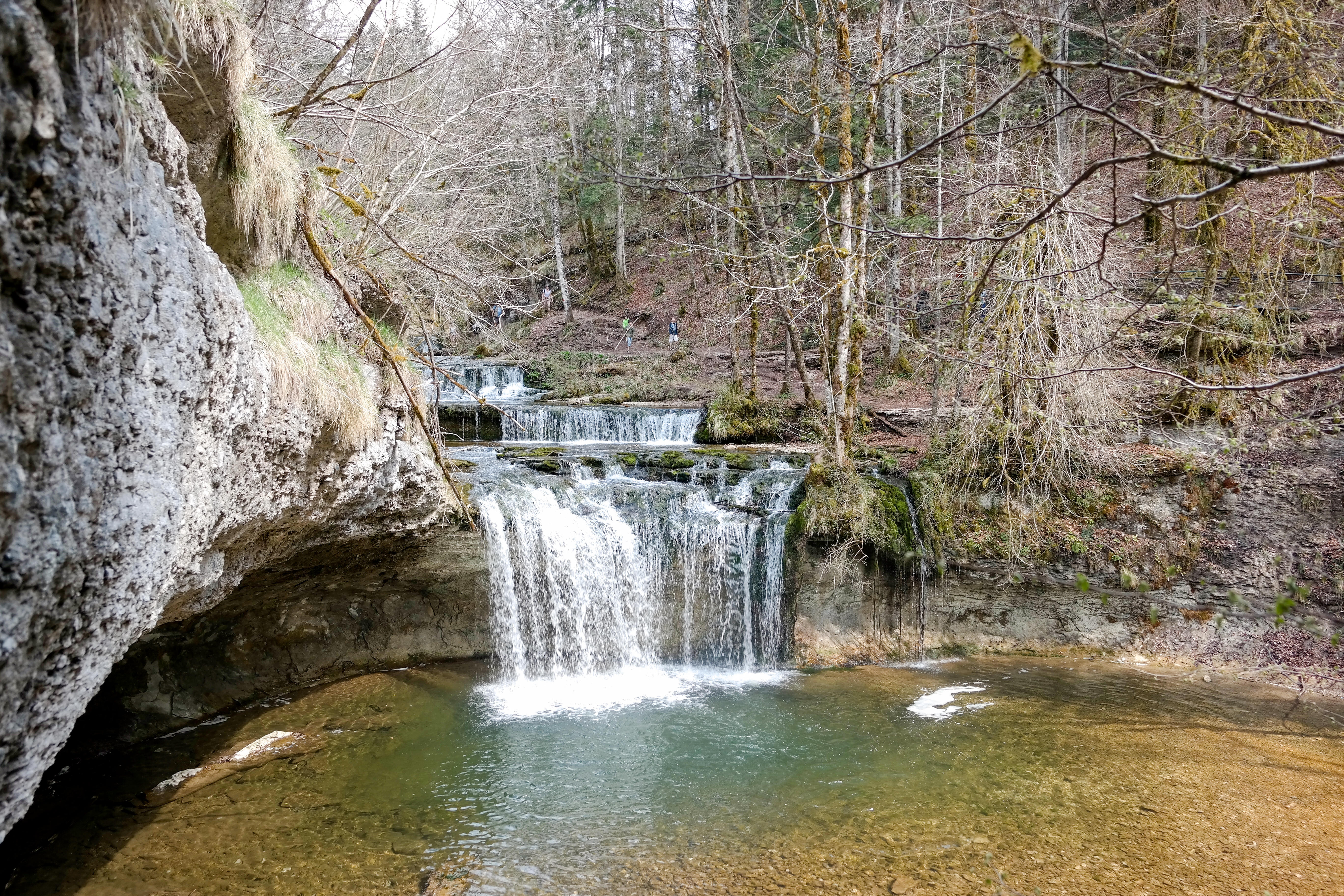 Le Gour Bleu